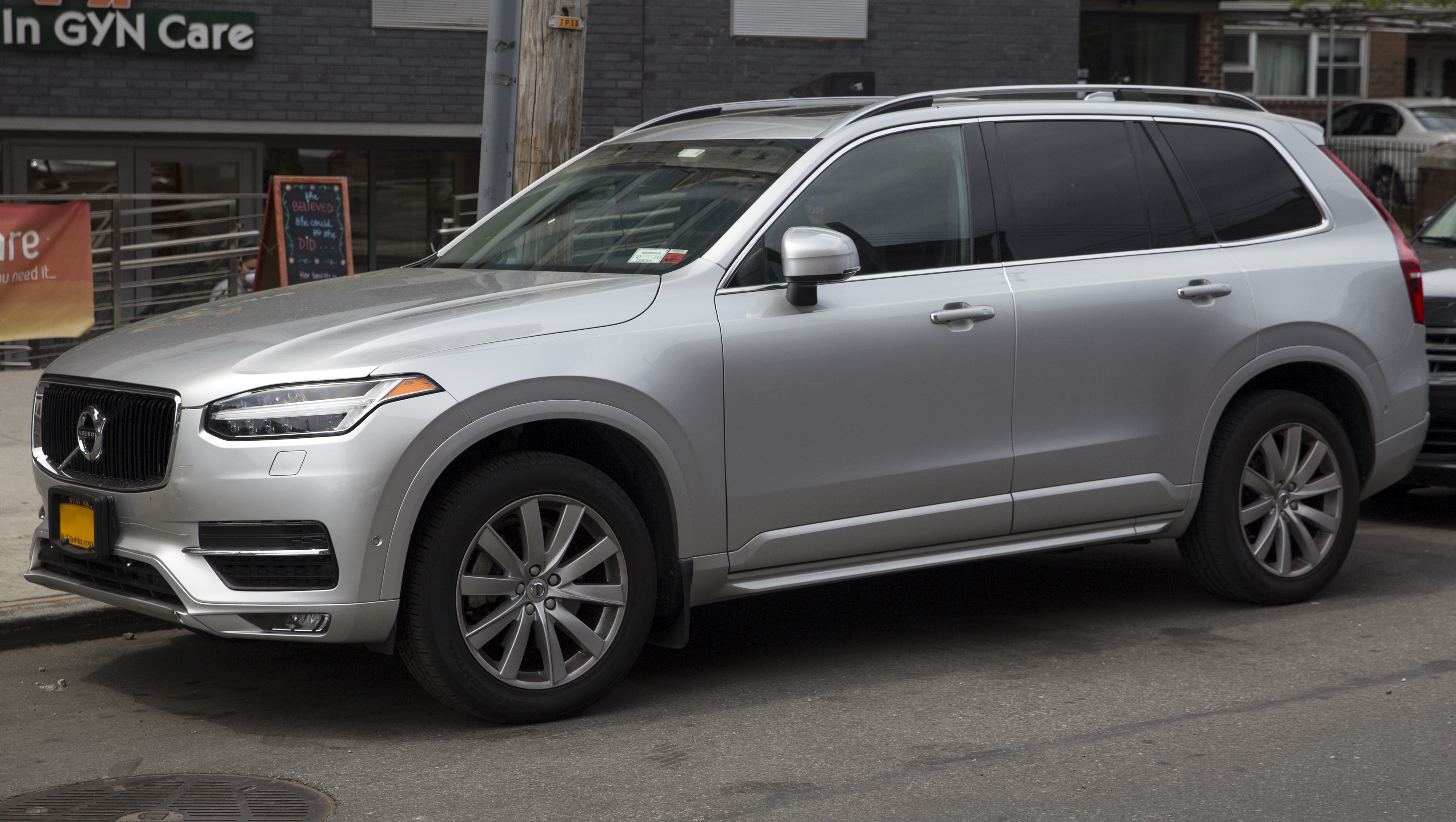 A 2017 Volvo XC90 Momentum; 2.0-liter turbo four-cylinder with 316hp (B4204TS), built in Torslanda, Sweden.